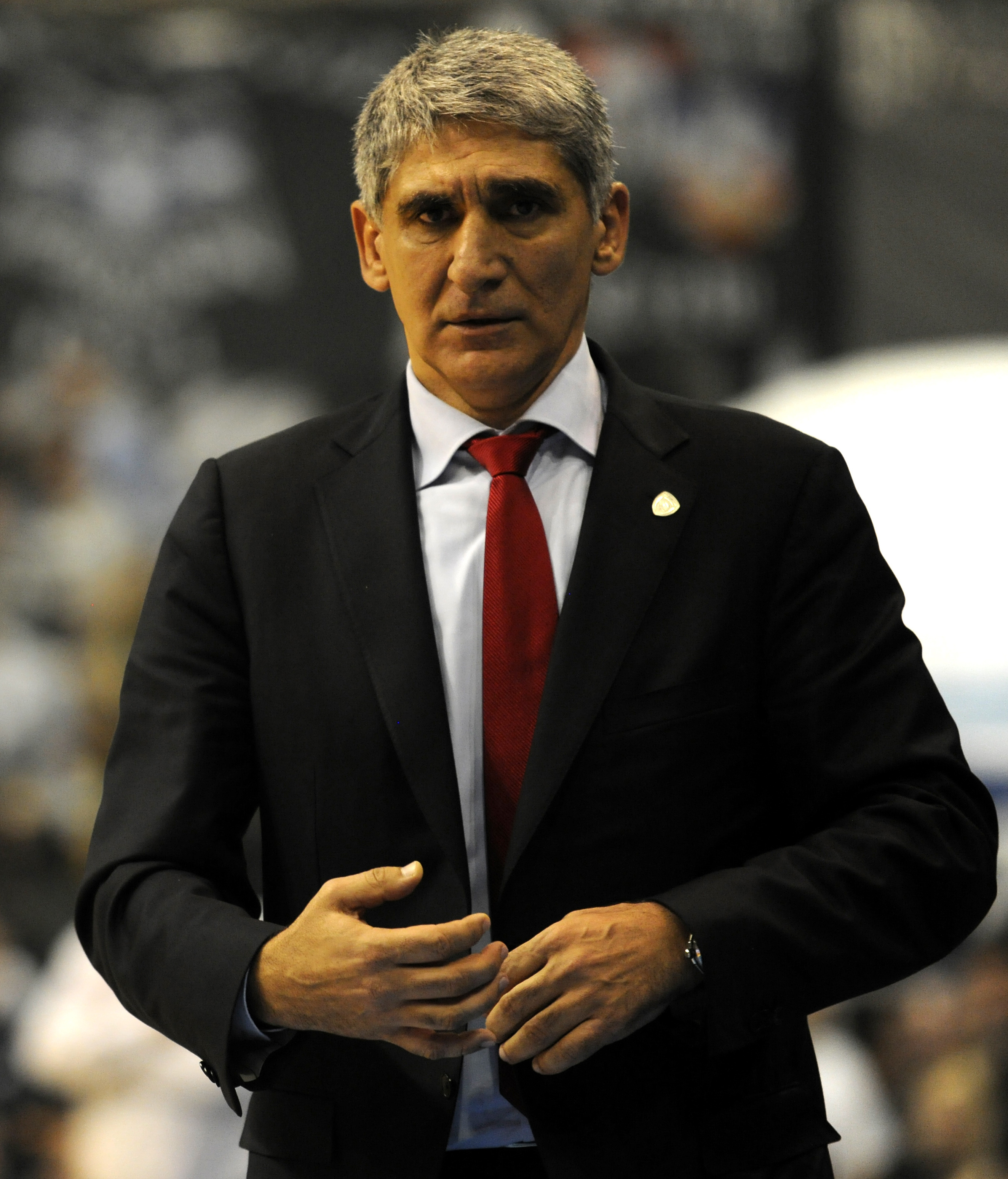 _DSC6988